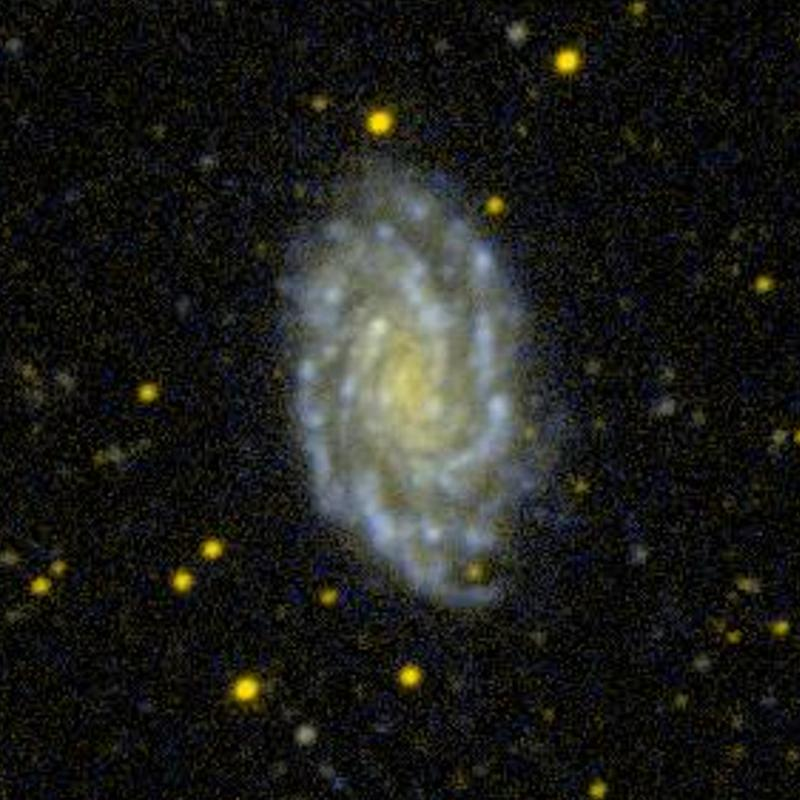 GALEX image of NGC 7083.